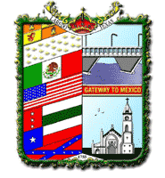 Laredo Coat of Arms